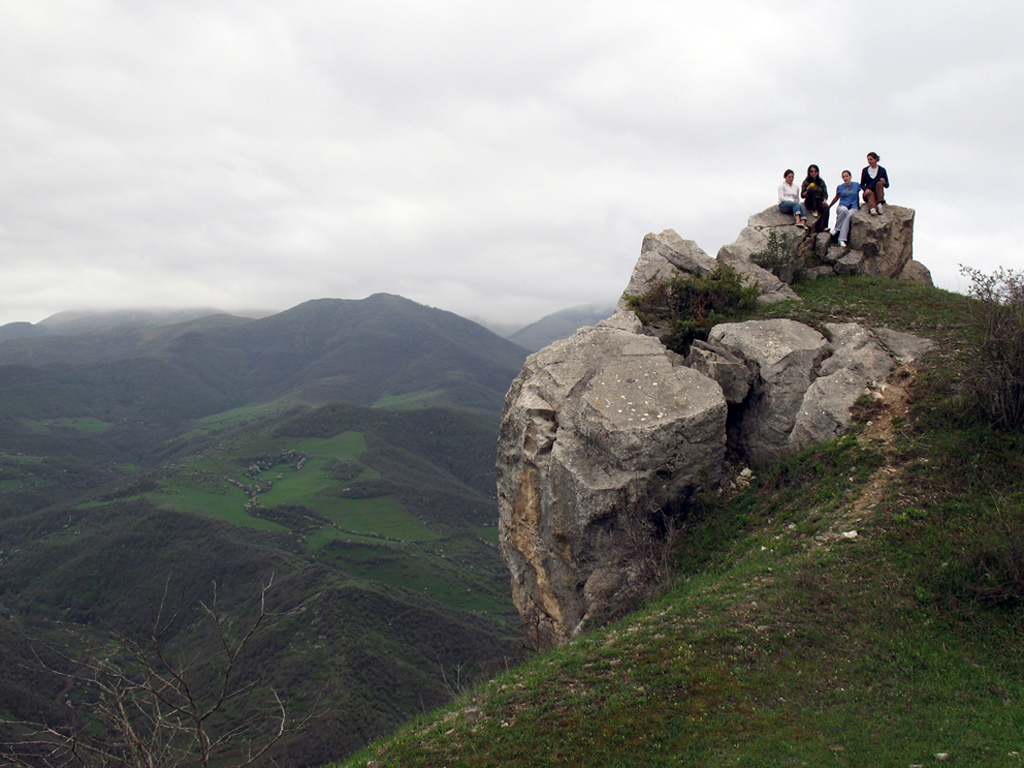 Hiking in Jdrdouz, 2010.